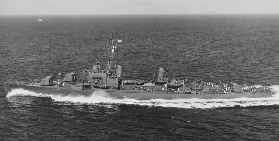 The U.S. Navy destroyer USS Norris (DD-861) off Bethlehem Shipbuilding Corporation, San Pedro, California (USA), on 10 October 1945. She is painted in Camouflage Measure 21.